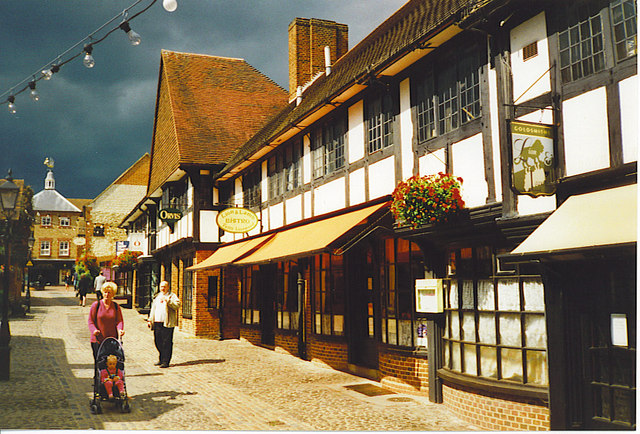 Lion and Lamb Court, Farnham. This is a good example of an old burgage lane running off the High Street at right angle. Many of the old half-timbered houses are now occupied by trendy boutiques and cafes. At the far end is a modern "Lion and Lamb" statue.